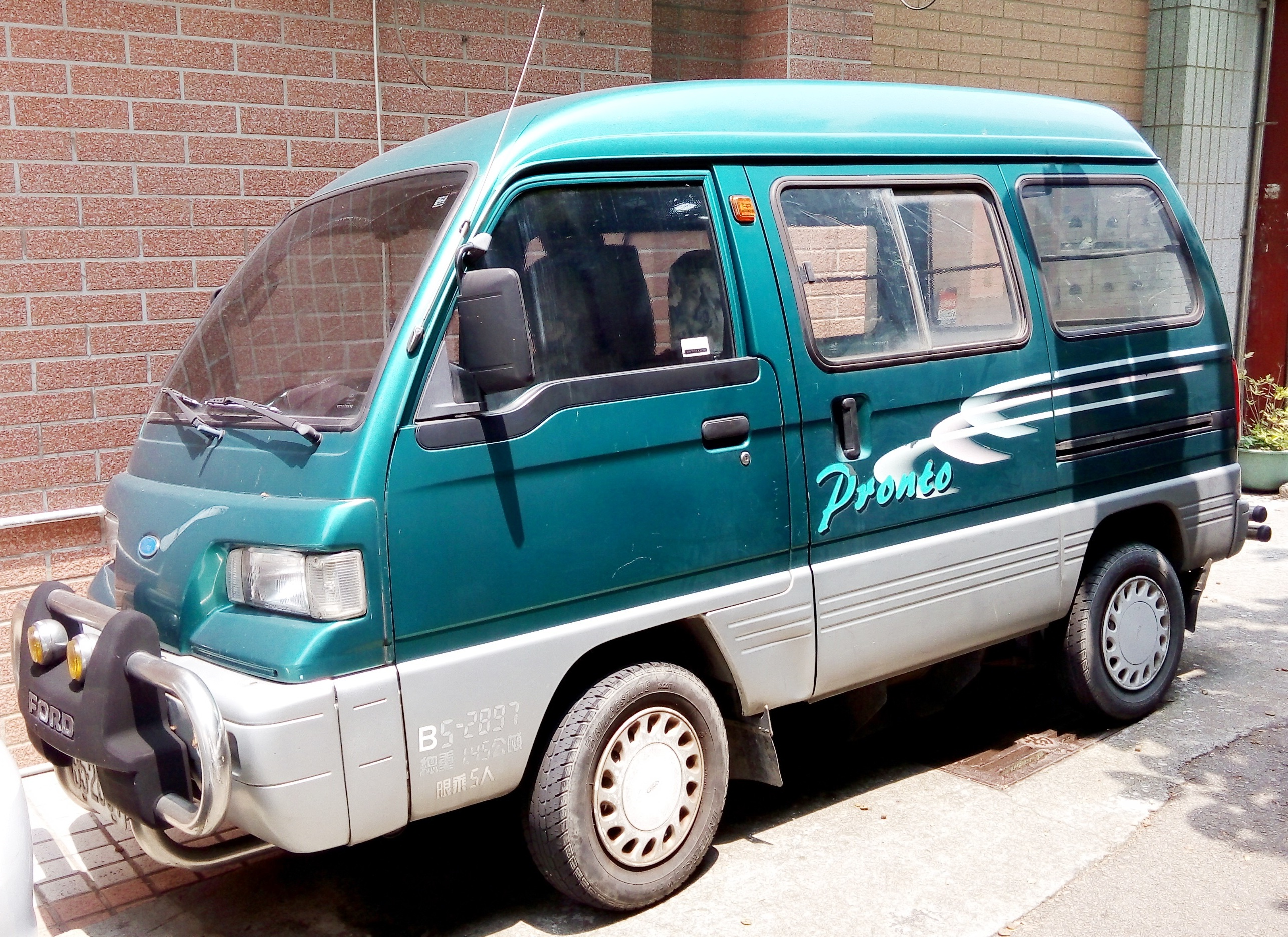 Front view of the 2nd generation of Ford Pronto, photoed in Taiwan